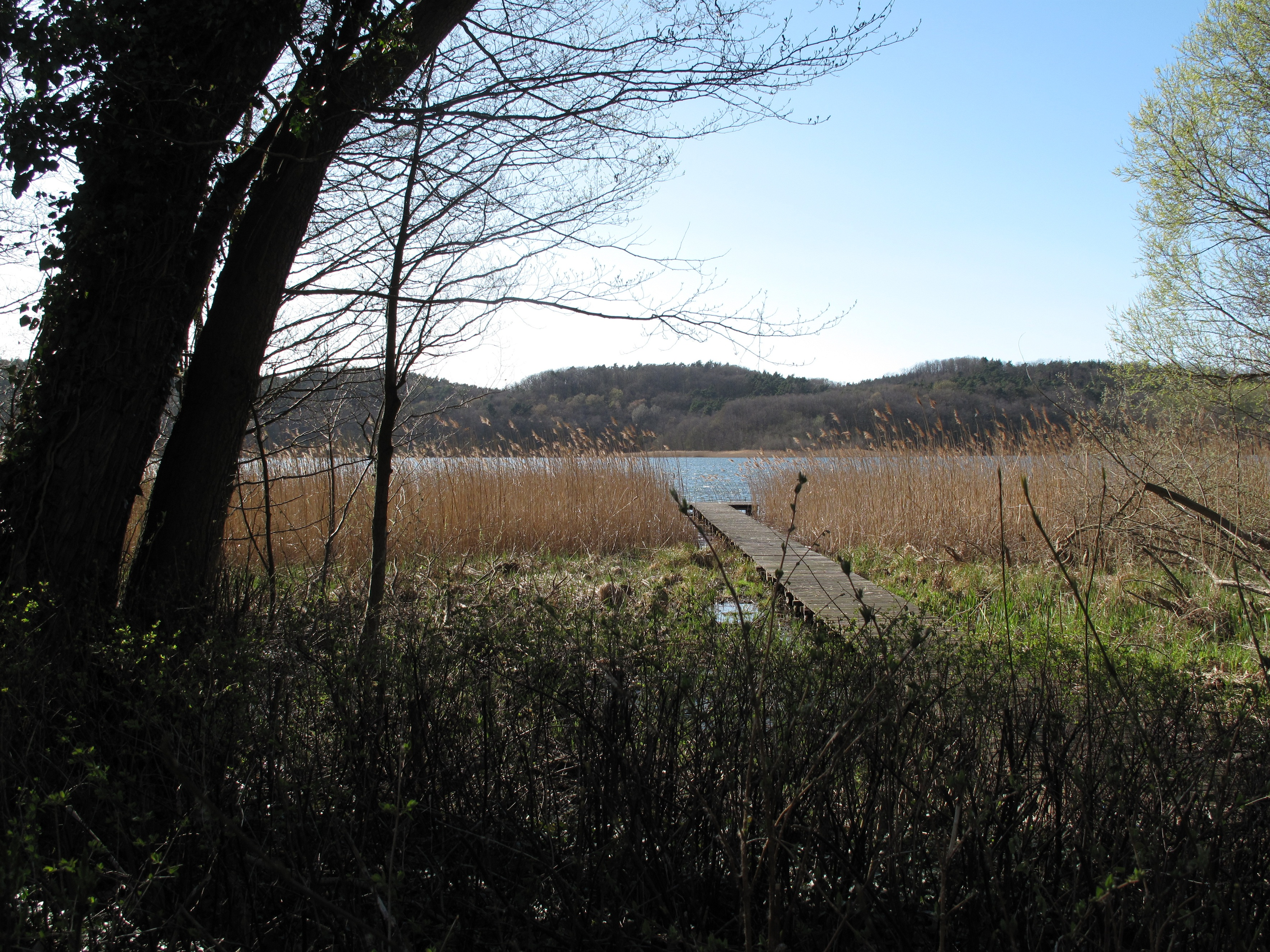 Listed Brecht-Weigel-Haus at the eastern shore of the Schermützelsee in the Bertolt-Brecht-Straße 29/30 in Buckow, District Märkisch-Oderland, Brandenburg, Germany. Bertolt Brecht and Helene Weigel were working in the summerhouse since 1952, Helene Weigel also after the death of Brecht in 1956. Since 1977 the house is used as museum and memorial to Brecht and Weigel. Listed is the whole ensemble, including some buildings as well as the garden with sculptures, sea-balustrade, water tower, boathouse and landing stage.